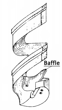 Diagram showing baffle position on SIPRE ice auger